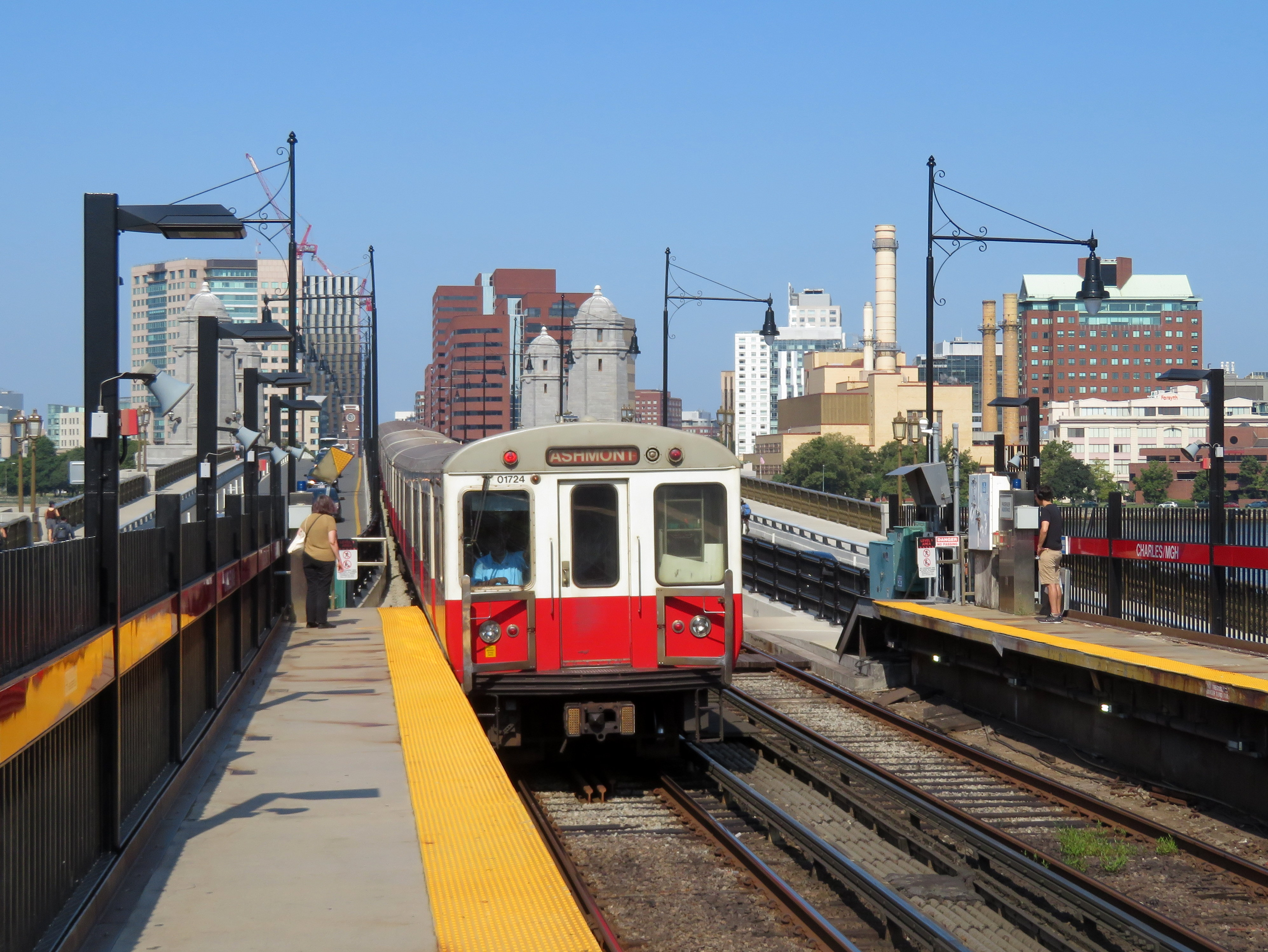 An inbound (southbound) Red Line train arriving at Charles/MGH station in July 2019